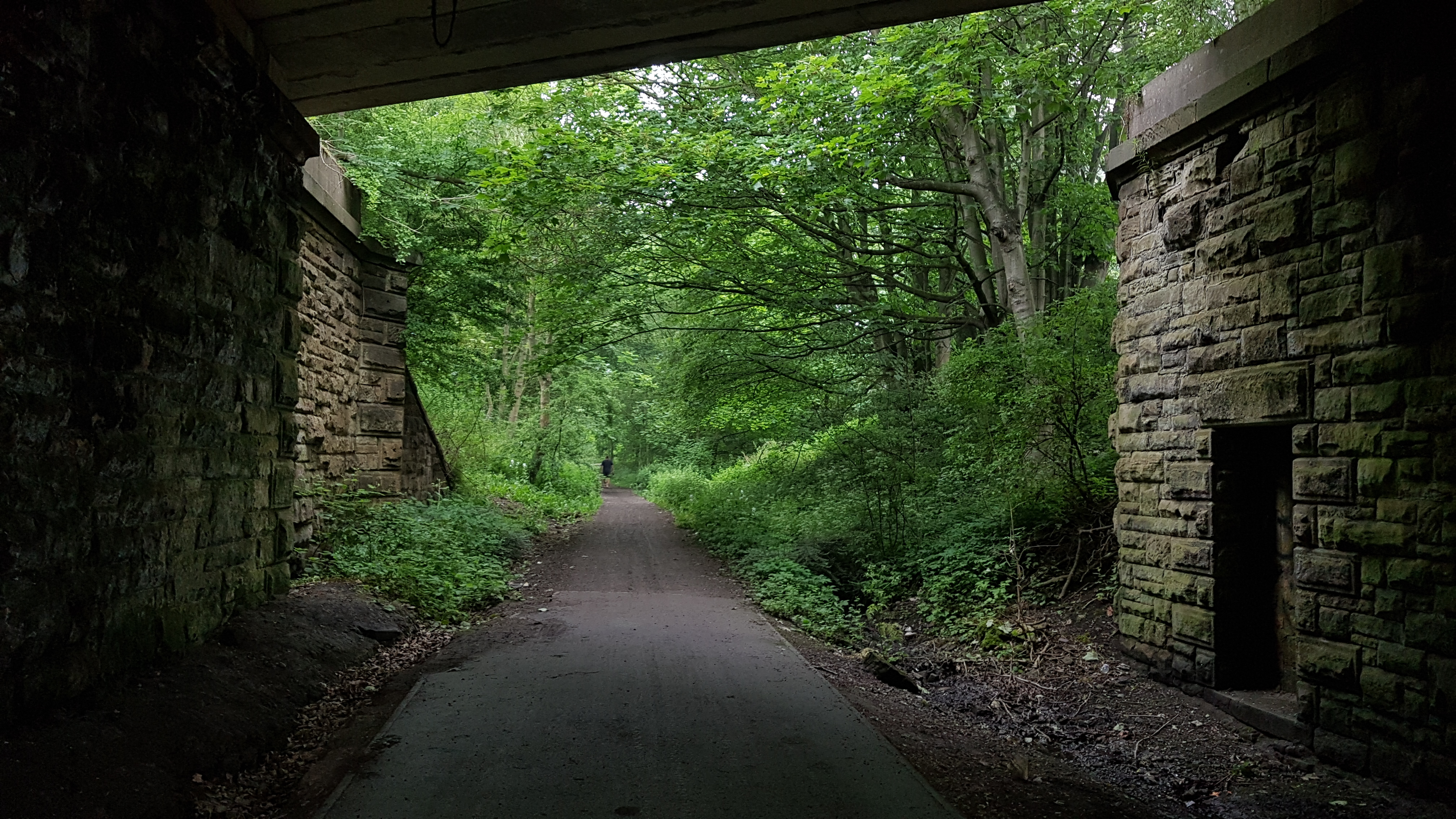 View Northwest through Wellfield Road Bridge over the Hart-Haswell Walkway towards the site of Wellfield Railway Station. The station booking office was located on the far side of the bridge, where the abutments are now exposed above (the bridge having been widened to enable the road and booking office to both sit on top); the station platforms extended along either side of the whole visible length of path beyond the bridge abutments, each having had a wooden waiting shelter. The station opened in 1882 to allow interchange between the North Eastern Railway's then newly opened Castle Eden Railway from Redmarshall and the route of the Hartlepool Dock & Railway Co. line of 1835 from Hartlepool; the latter was later incorporated into the NER's inland West Hartlepool to Sunderland via Haswell Line. Stopping Castle Eden Railway services ceased in 1931 but the station remained open until 1952 (it had never been served by goods trains) and a single line through it was retained until around 1984.